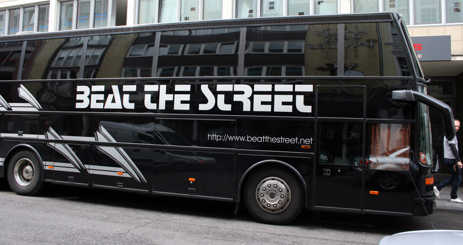 Per Gessle's Party Crasher Tour 2009 tourbus in Cologne